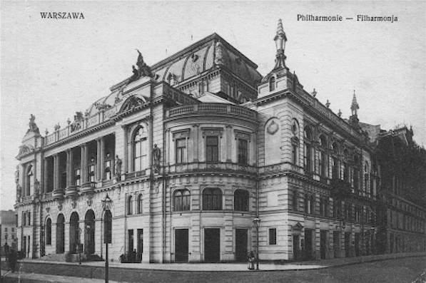 Warsaw Philharmonic.